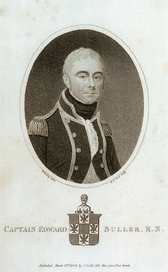 Captain Edward Buller R.N